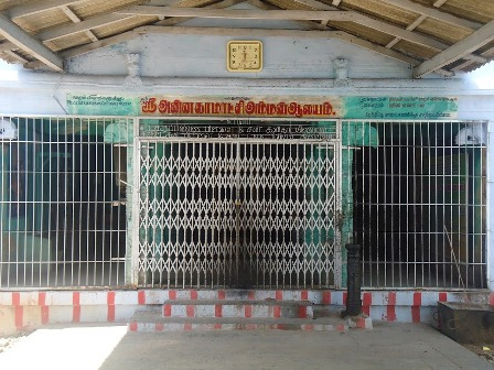 வைரசெட்டி பாளையத்தில் உள்ள அன்னகாமாட்சியம்மன் கோயில் புகைப்படம்